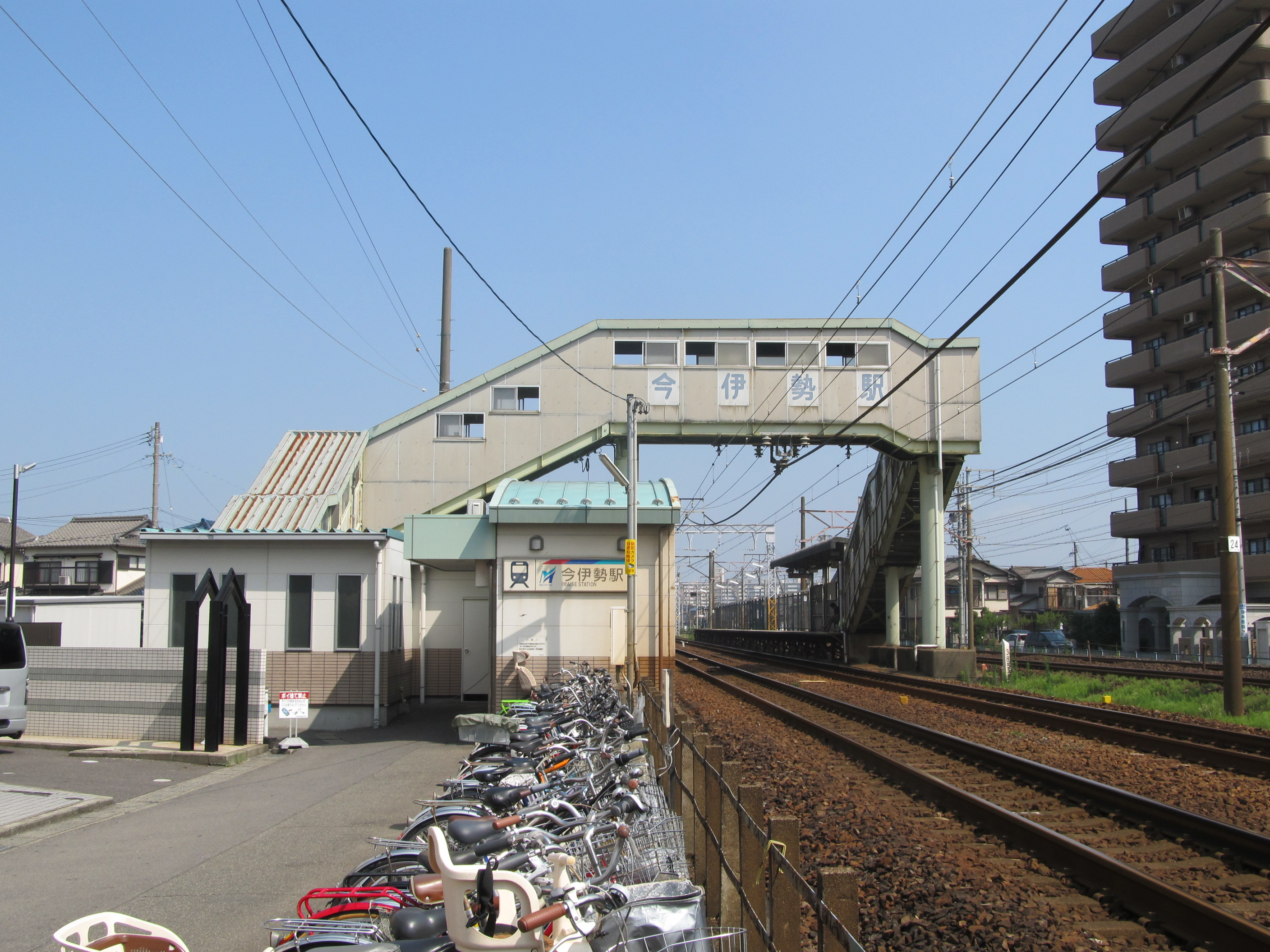 Nagoya Railroad Nagoya Main Line Imaise Station Building